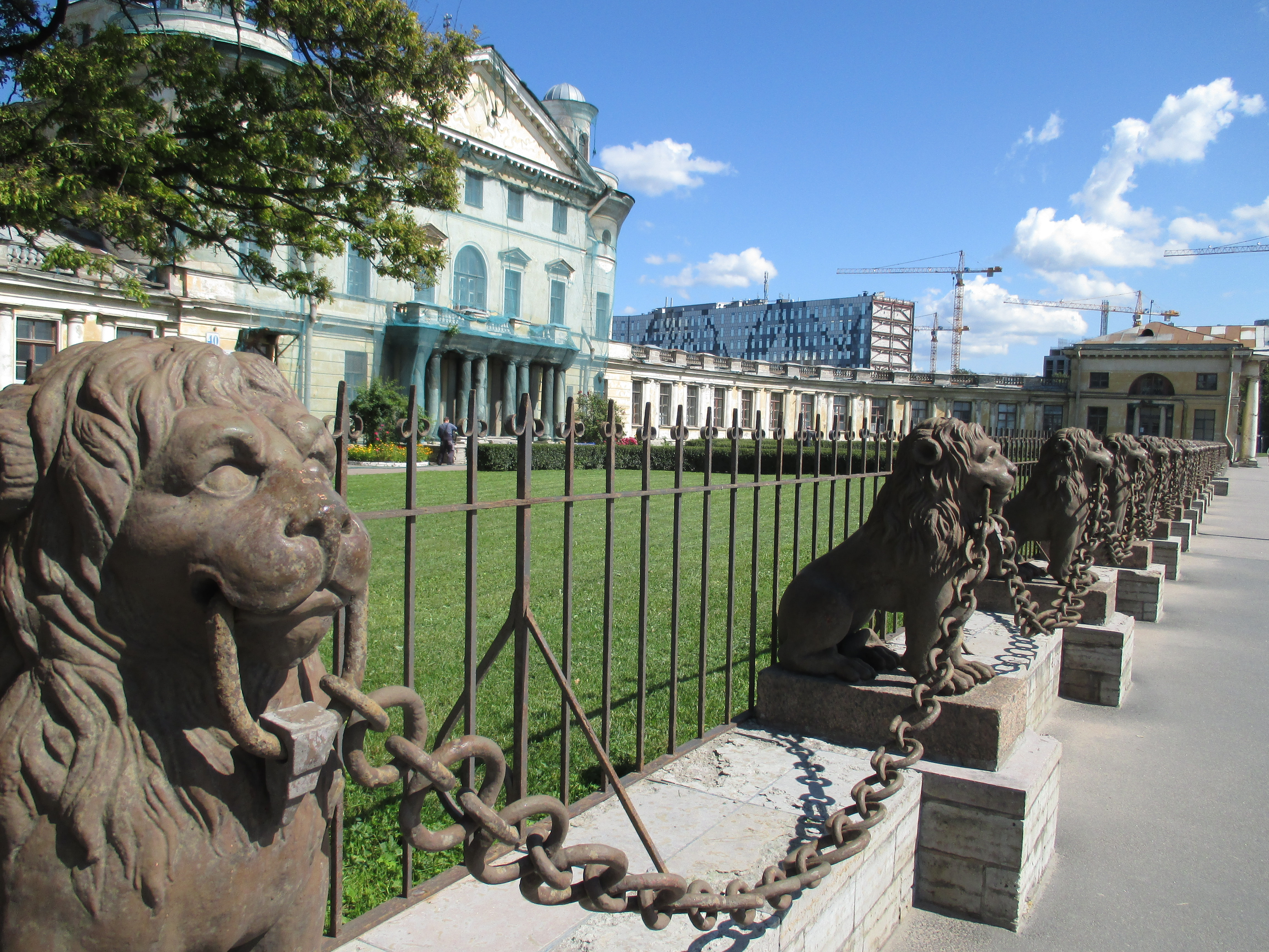 Bezborodko Dacha in Saint Petersburg - fence